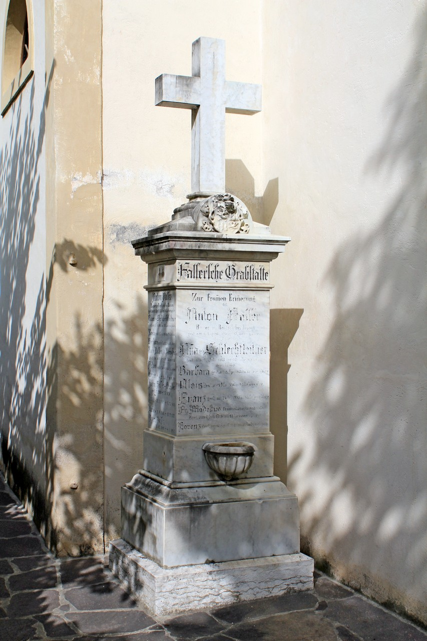 Falsersche Grabstätte bei der Kirche St. Laurentius in Rentsch